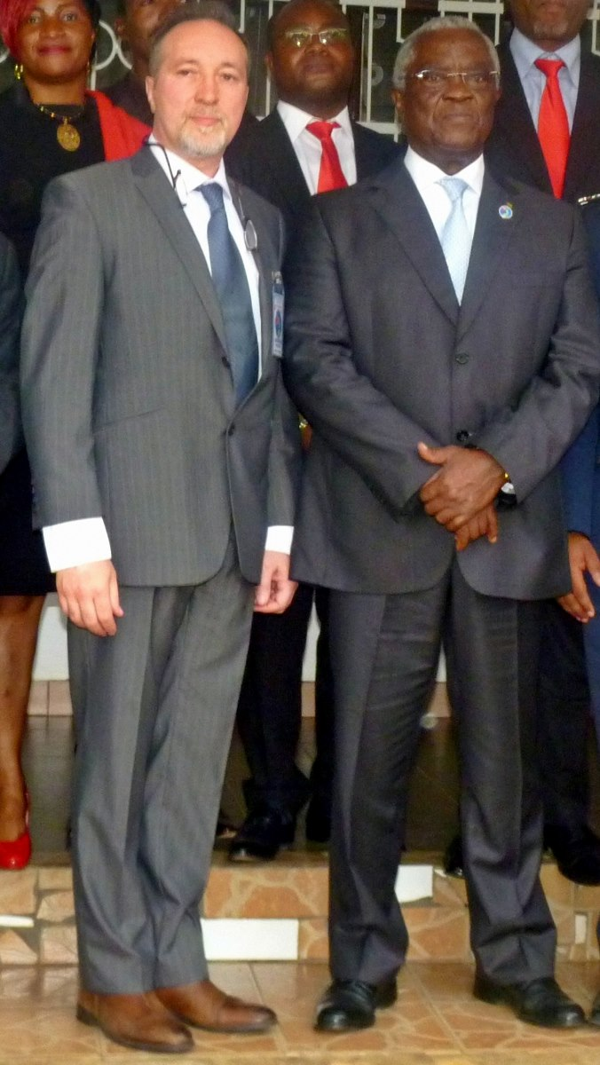 Ambassador Toriello meeting H.E. President Manuel Pinto Da Costa at the all African Heads of State summit conference, Cameroon.